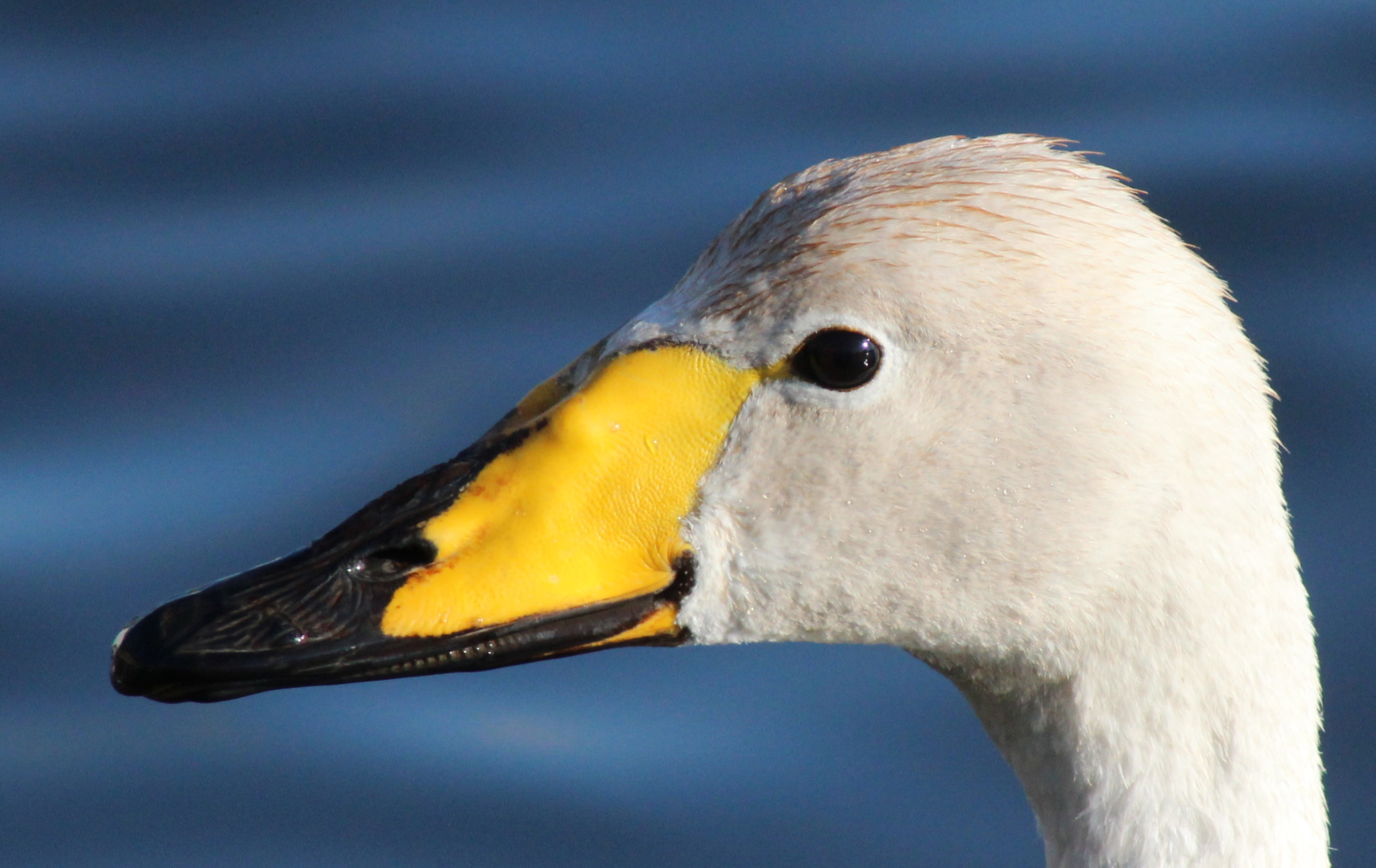 A Whooper Swan (Cygnus cygnus) at the Tjörnin lake in the central Reykjavík.